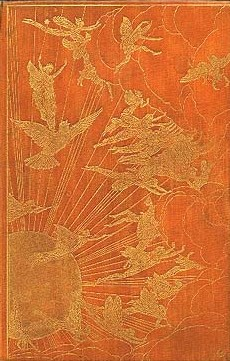 Cover of the first edition of The Orange Fairy Book, published 1906 Source: Leonard Roberts Bookseller